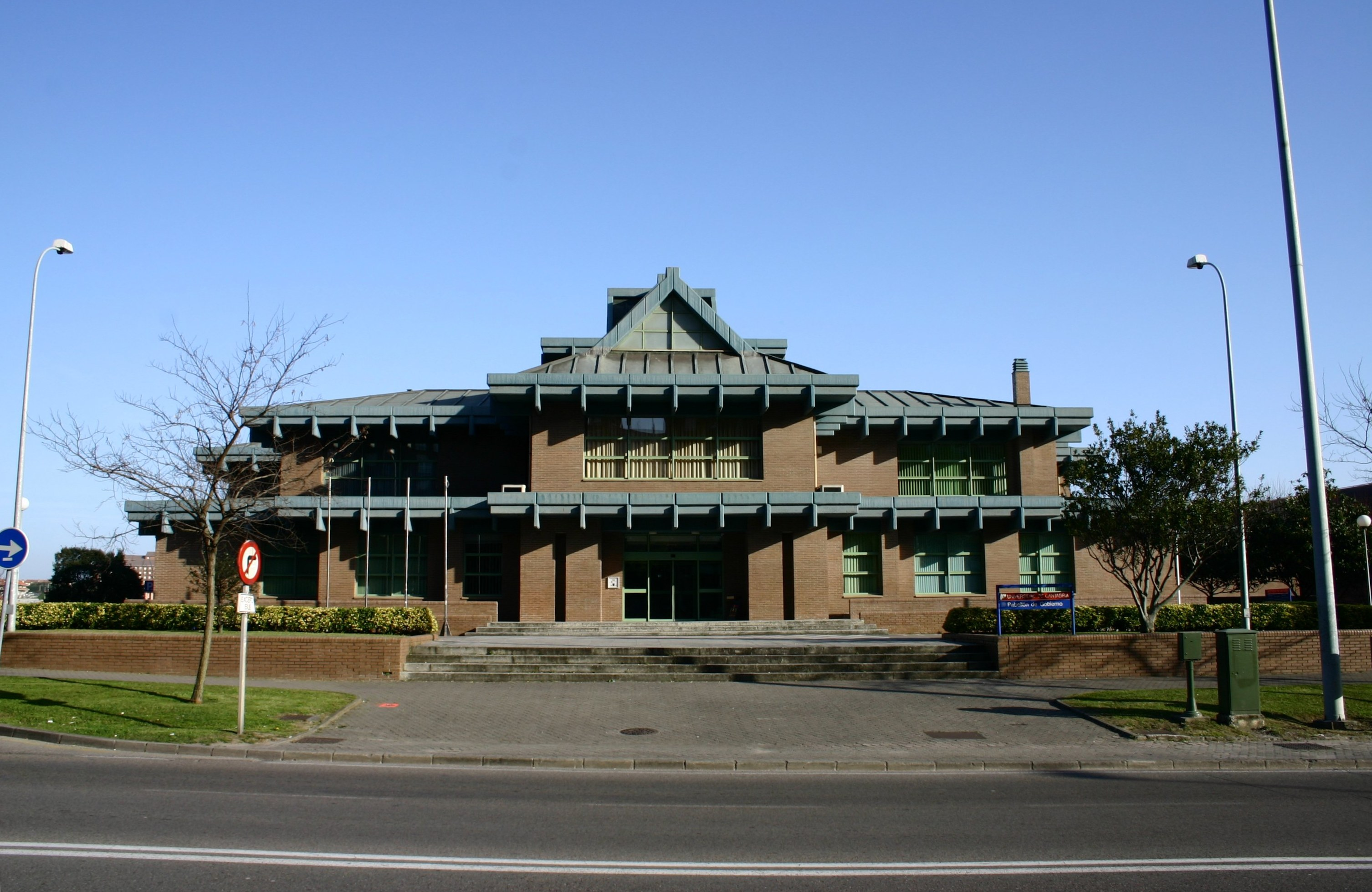 City of Santander. Pabellon de Gobierno.